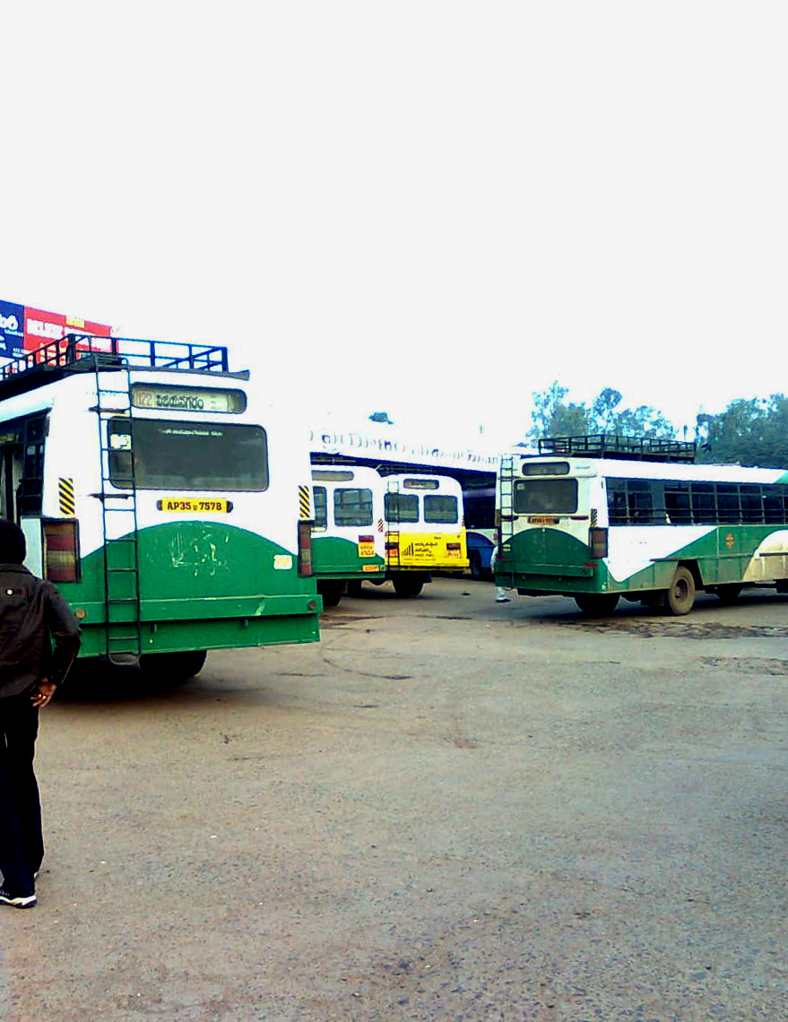 APSRTC Bus Complex at Vizianagaram, Andhra Pradesh